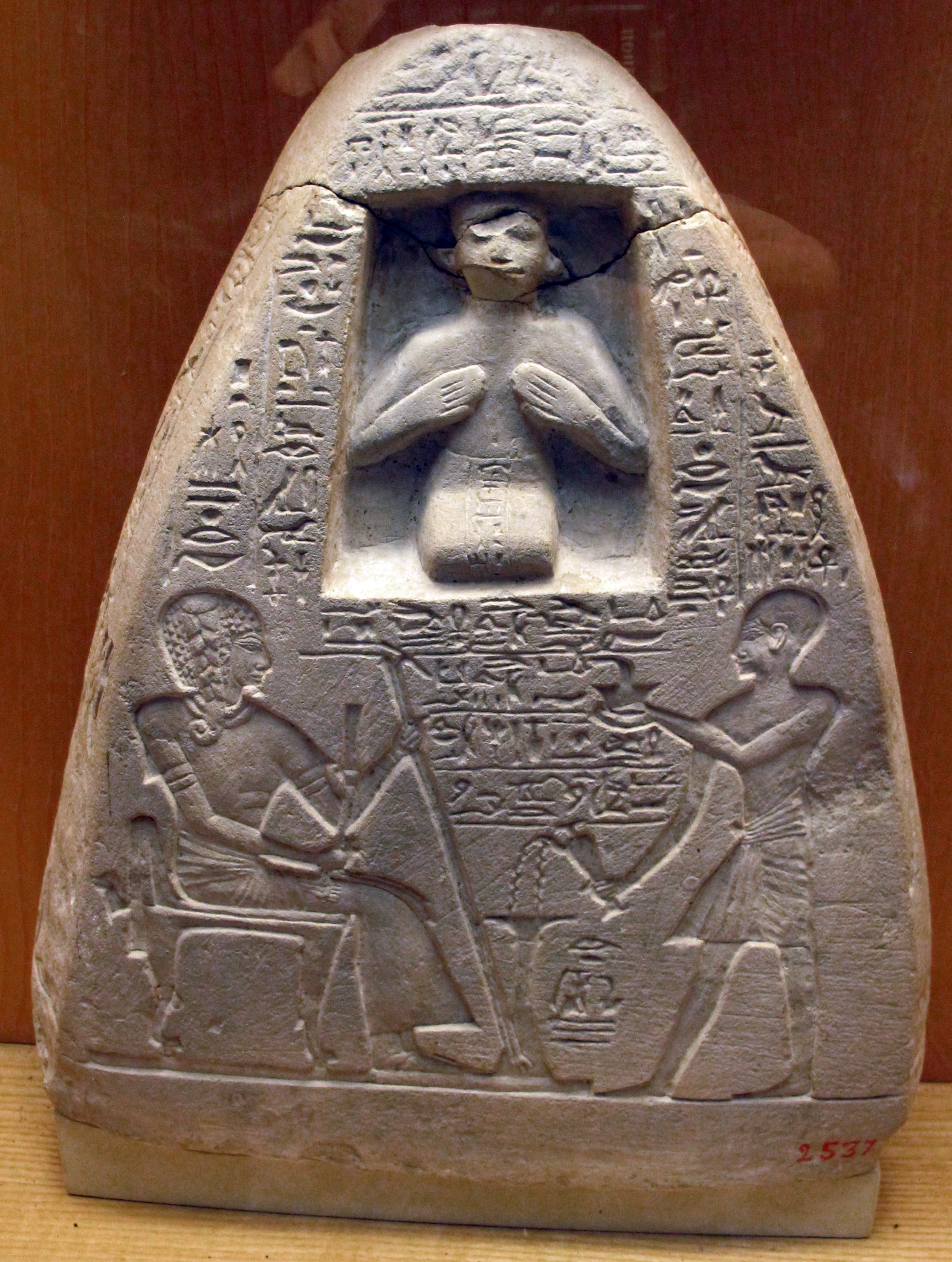 Pyramidion/funerary stele for the High Priest of Ptah, Ptahmose. The deceased is depicted (left, sitting) while receiving various kind of offers from his helper, the choirmaster of Ptah, Ptahankh (right). NOTE: this Ptahmose could be the same of Ptahmose, son of the vizier Thutmose or, alternatively, of Ptahmose, son of Menkheper. Unknown provenience, 18th dynasty, New Kingdom. Florence, Museo archeologico nazionale, n. 2537 (Cat. Schiaparelli n. 1571).